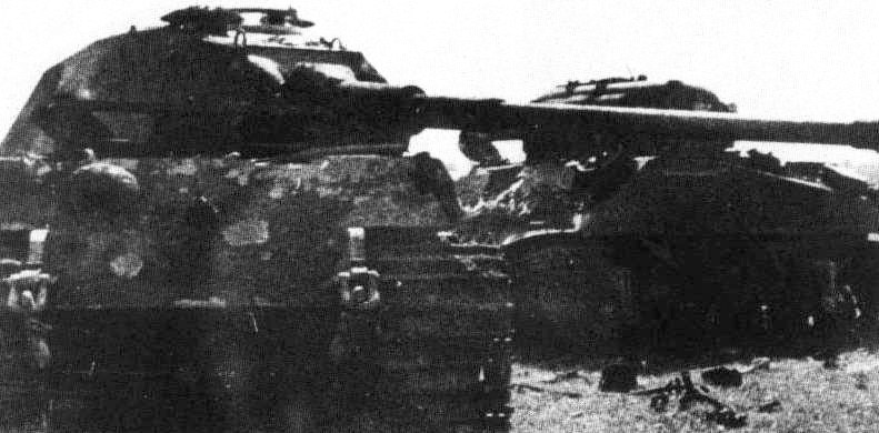 A King Tiger of the 503rd heavy tank battalion, after it has been rammed by a British Sherman commanded by Lieutenant John Gorman of the 2nd Armoured Irish Guards, Guards Armoured Division during Operation Goodwood. Gorman and his crew then captured most of the Tiger's crew. The event took place on 18 July 1944 to the west of Cagny, Normandy, France.